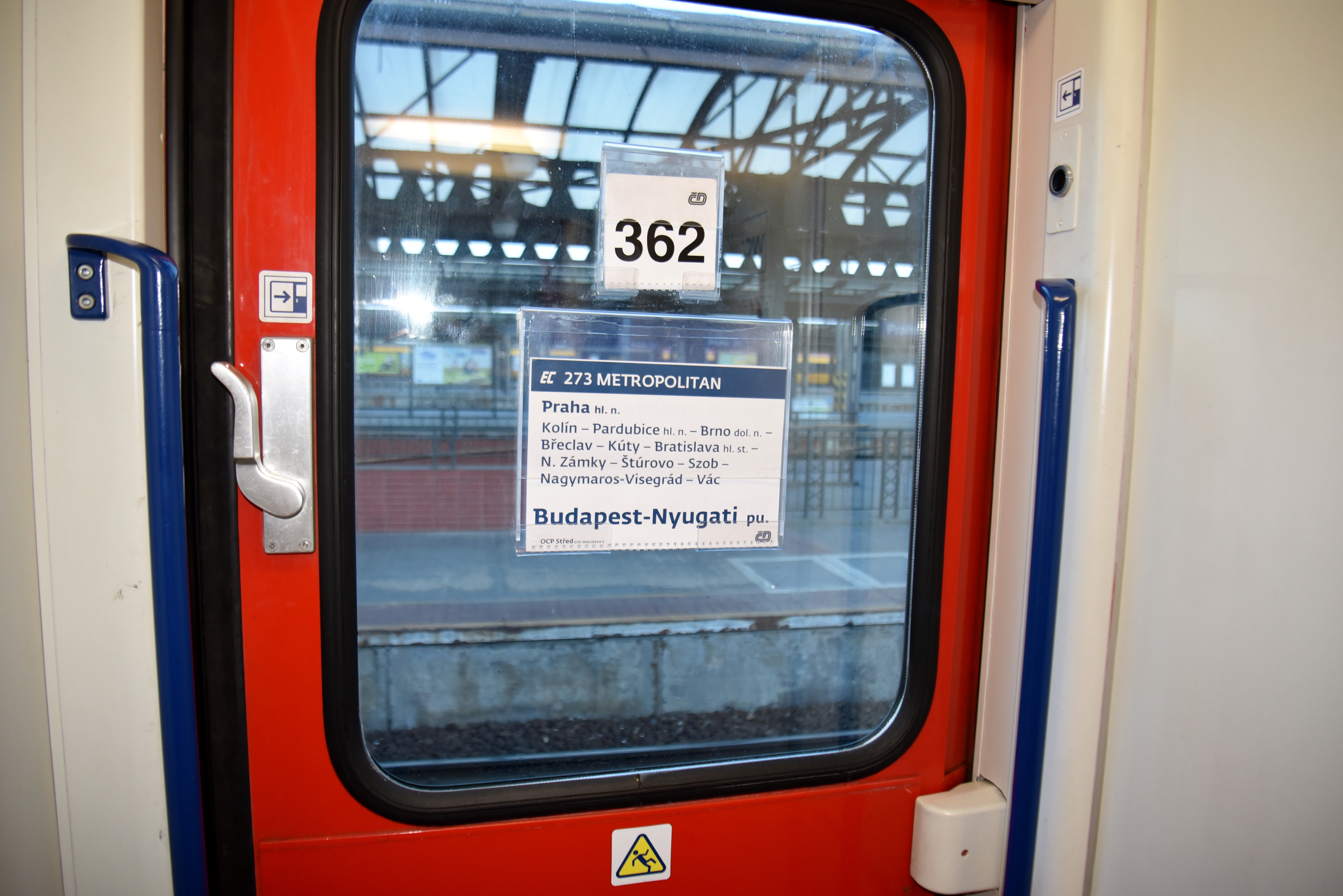 View of the route placard (or information board) of EuroCity train no. EC 273 Metropolitan to Budapest-Nyugati, as it awaits departure from Praha hl.n.